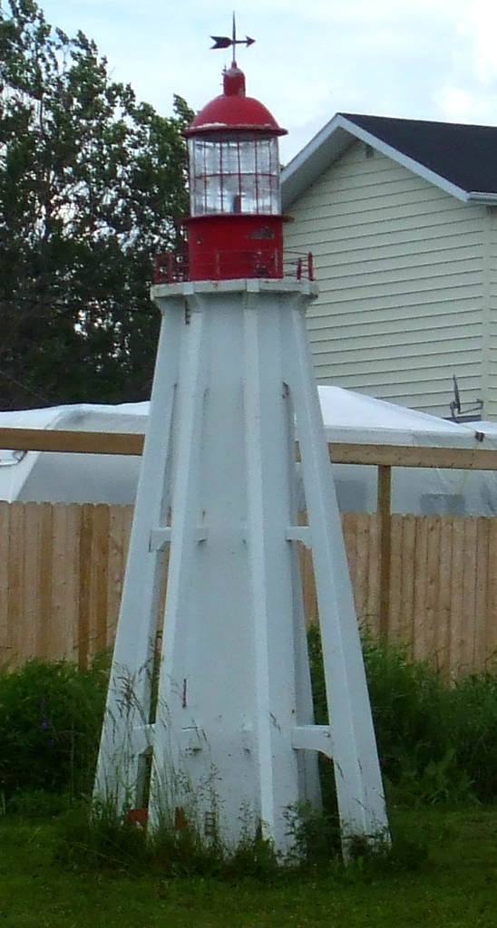 Replica of Pointe-au-Père's lighthouse.